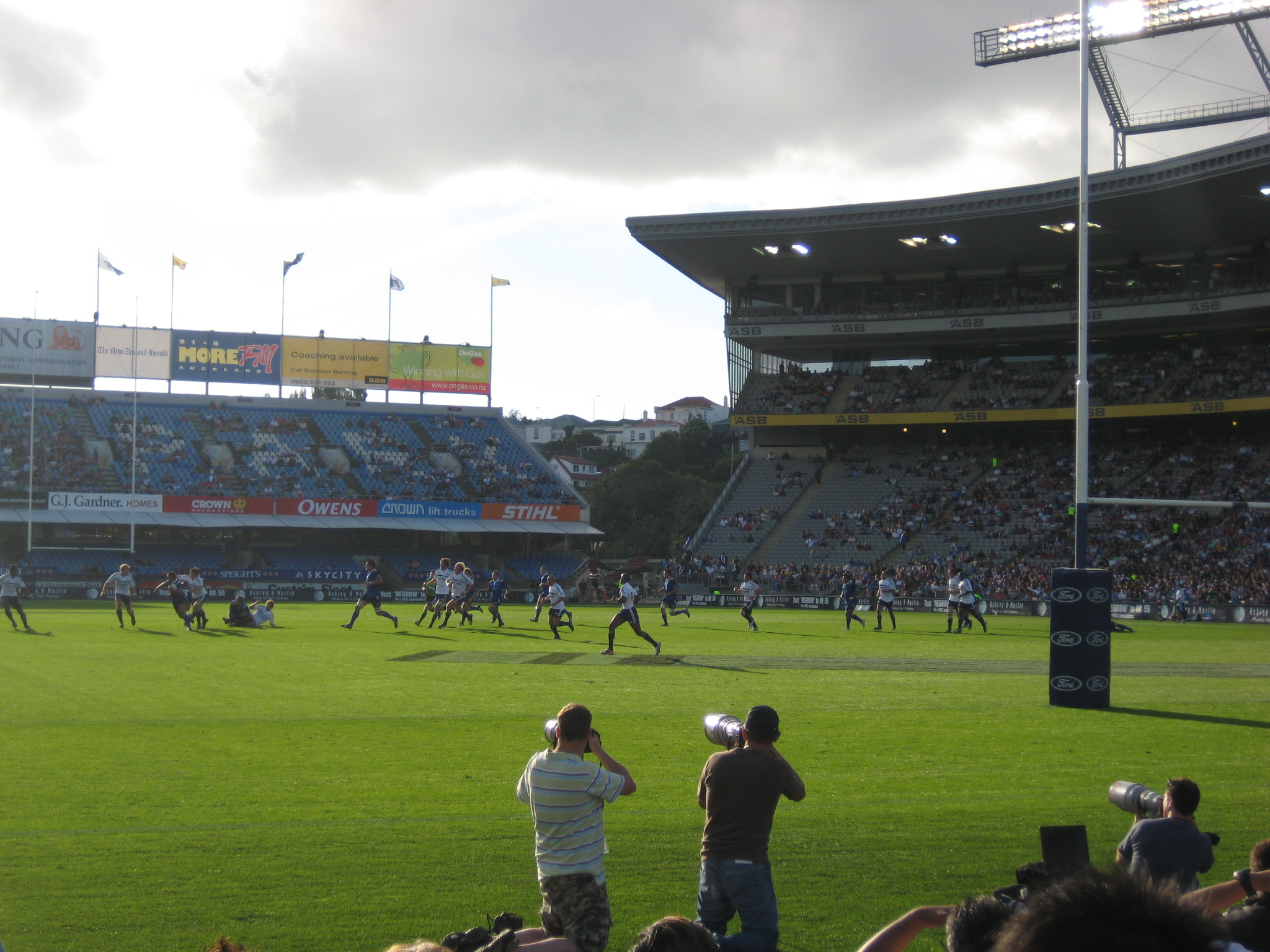 Blues vs Crusaders March 22nd 2008 in Eden Park (Auckland, NZ)